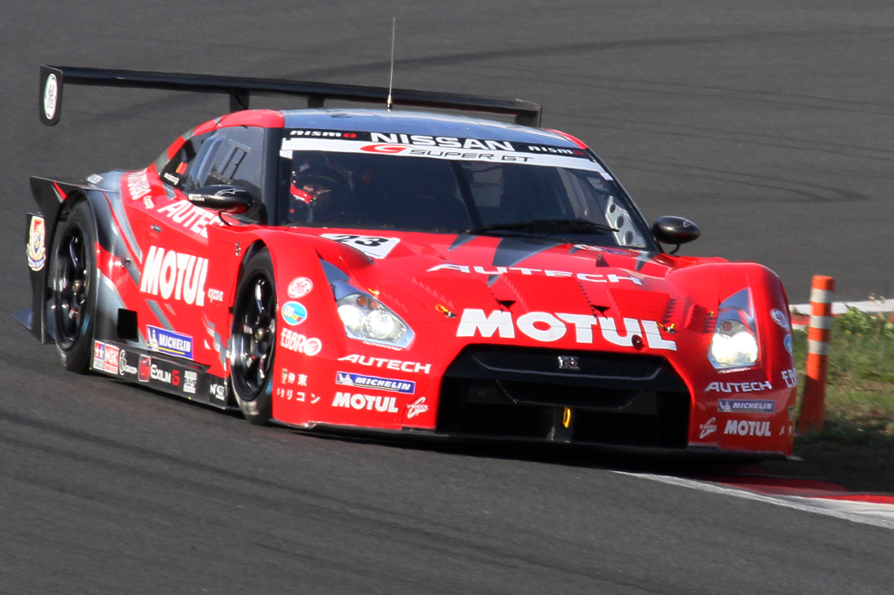 Super GT 2010 Rd.3 Fuji GT 400km: Benoît Tréluyer (Nismo) driving the Motul Autech GT-R in the 'Super Lap' of the qualify session.